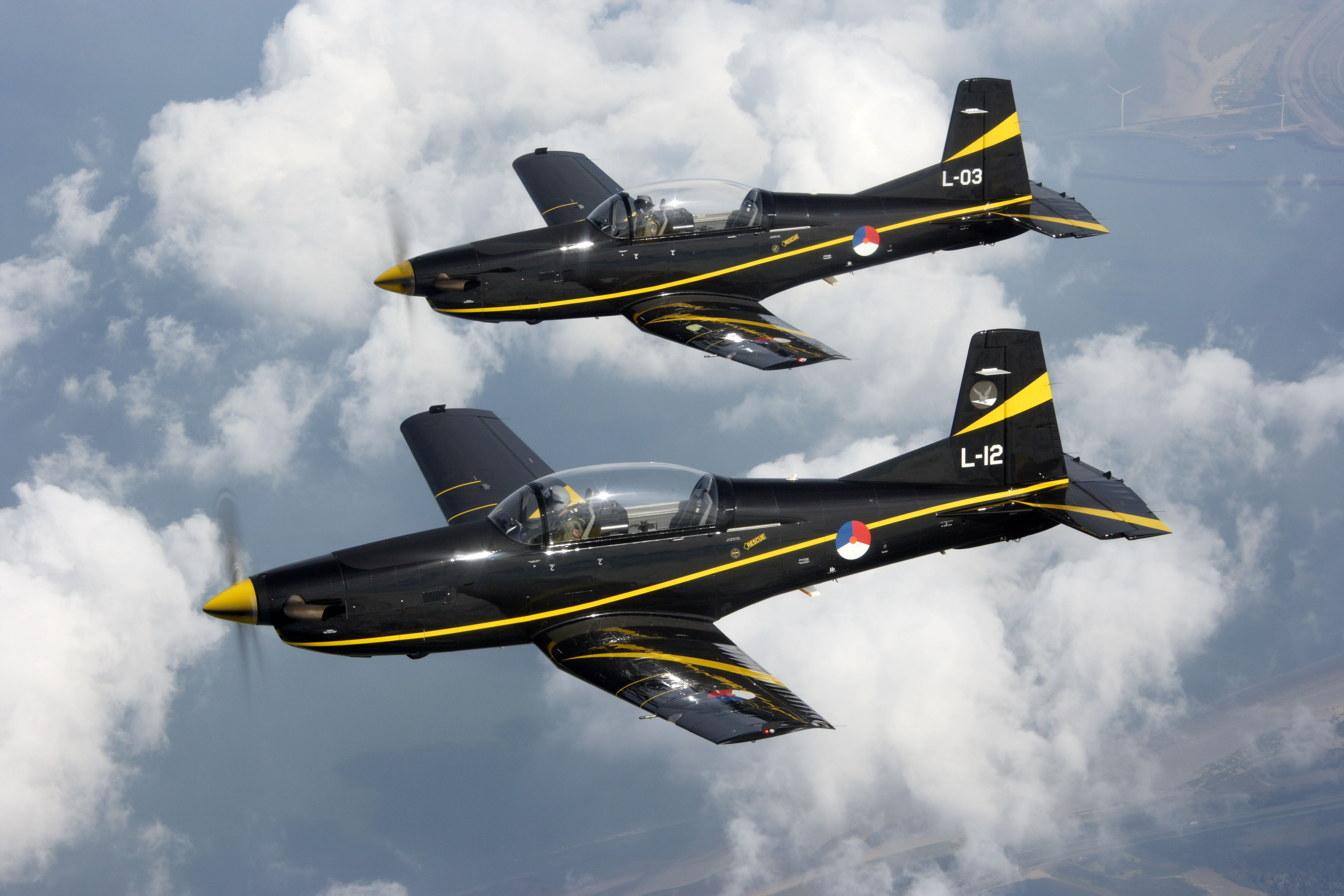 Two Pilatus PC-7's of the Royal Netherlands Air Force